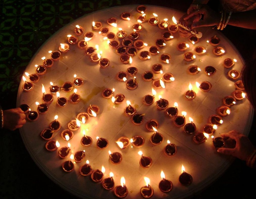 Navratri Durga Puja